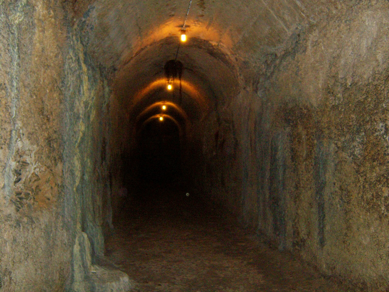 Underground cistern of the Roman aqueduct at Urbs Salvia (Urbisaglia), Le Marche, Italy